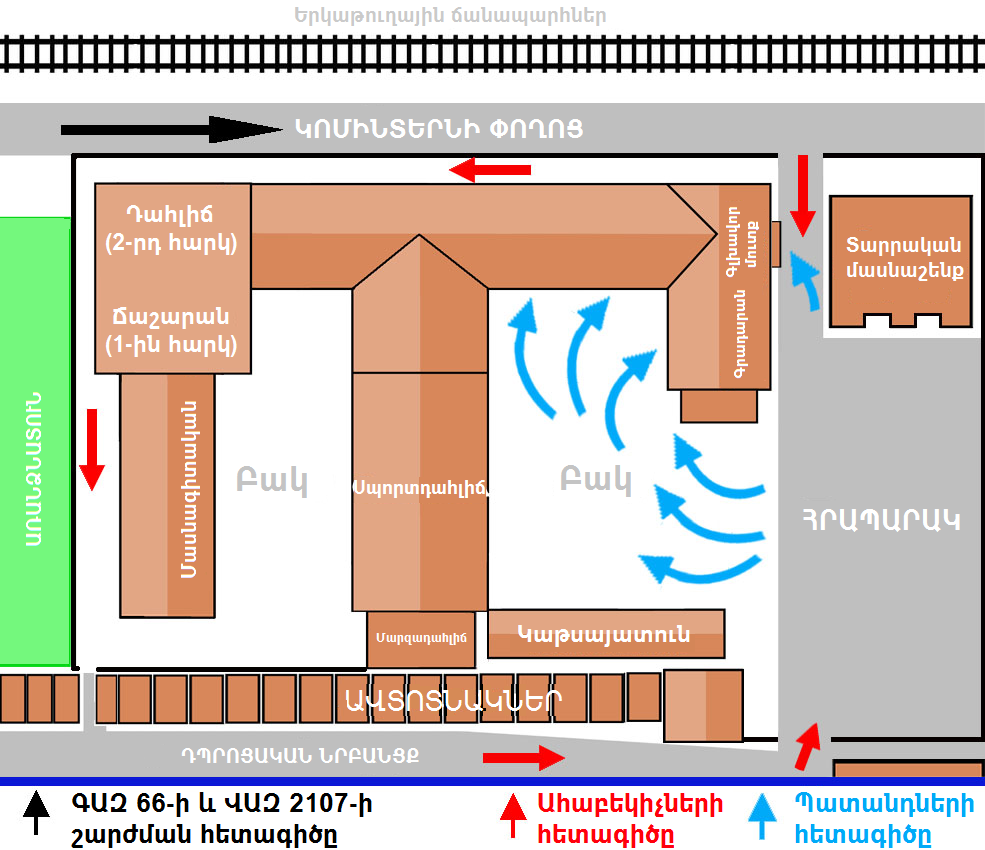 Map of Beslan school siege